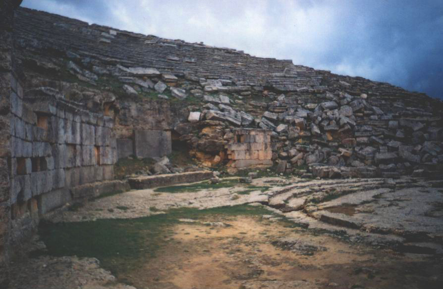 Ruins of Cyrene, Libya